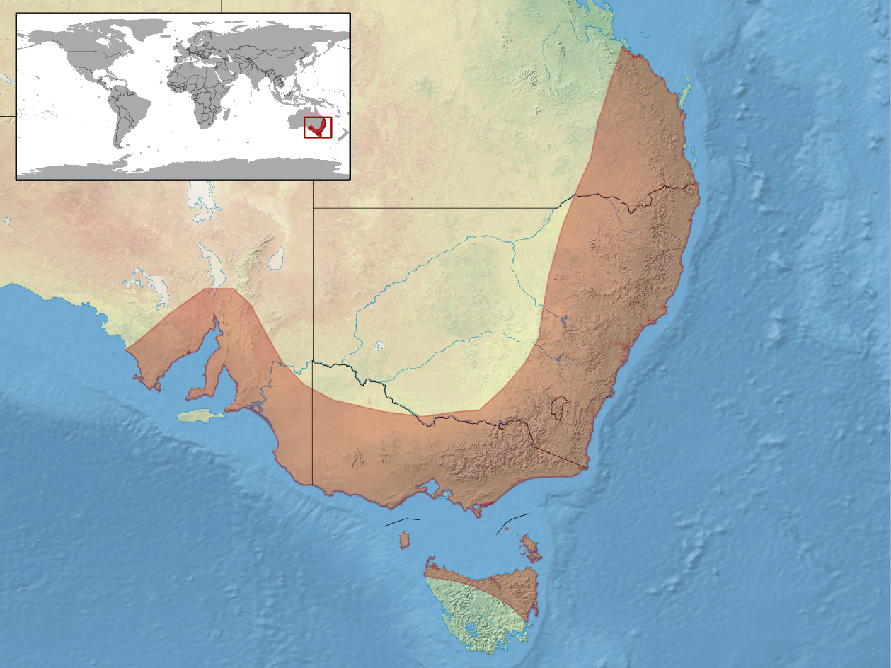 geographic distribution of Liopholis whitii